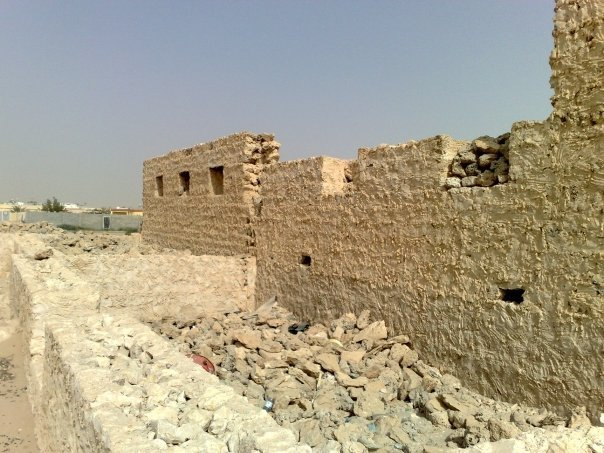 Ruins in Simaisma, Qatar.